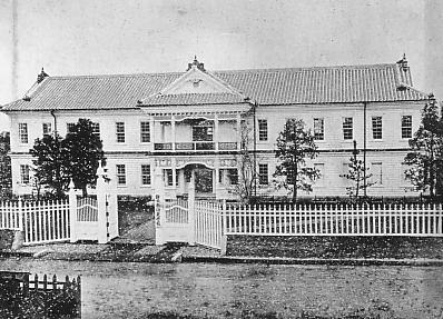 Gunma Prefectural Normal School